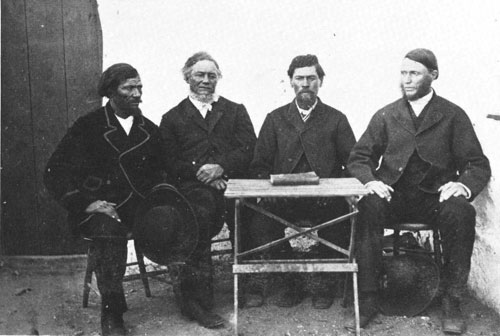 The first council of the Rehoboth Basters 1872 From left to right: Paul Diergaardt, Jacobus Mouton, Hermanus van Wijk, and Christoffel van Wijk. On the table lies the Rehoboth Constitution - the Paternal Laws.